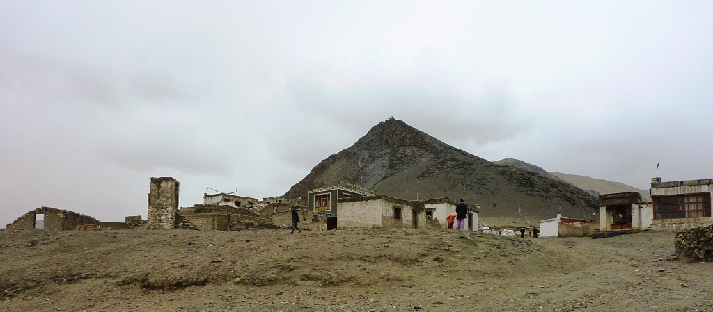 I took this photo on a trip through Ladakh and neighbouring regions in 2010